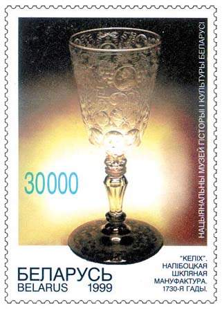 Stamp of Belarus